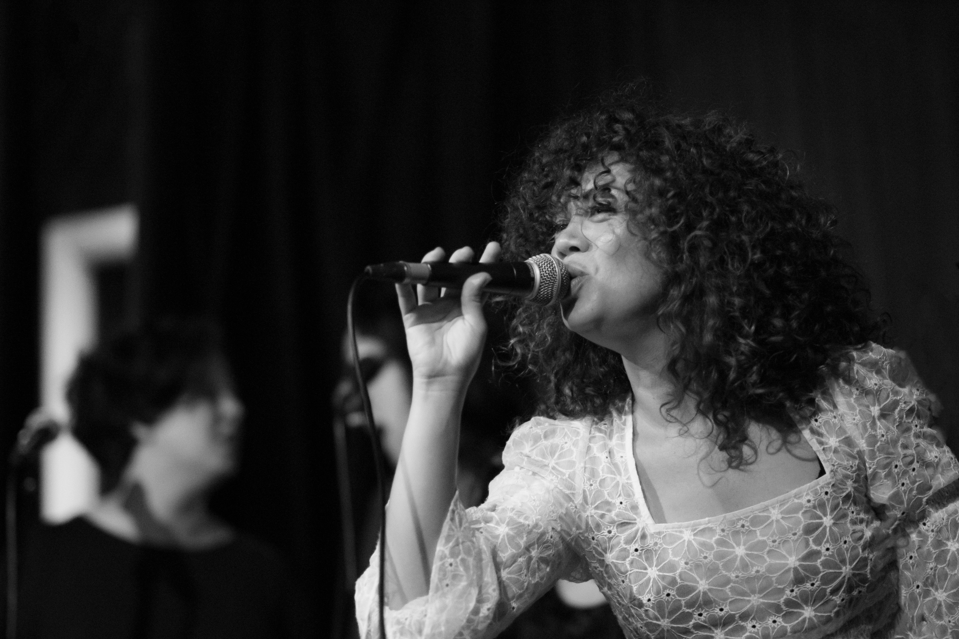 Jade MacRae performing live at Venue 505 January 2019